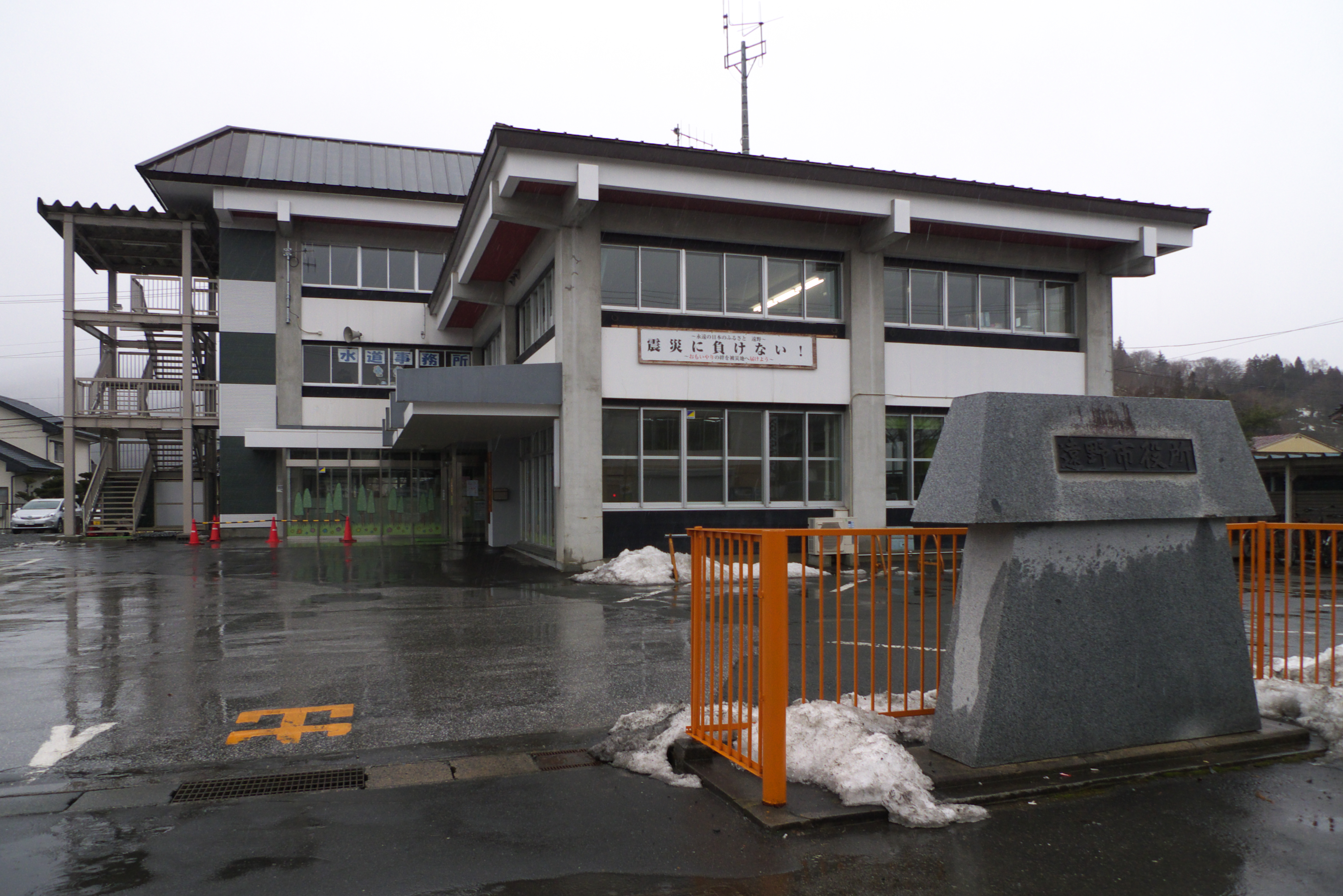 Tono City Hall west building